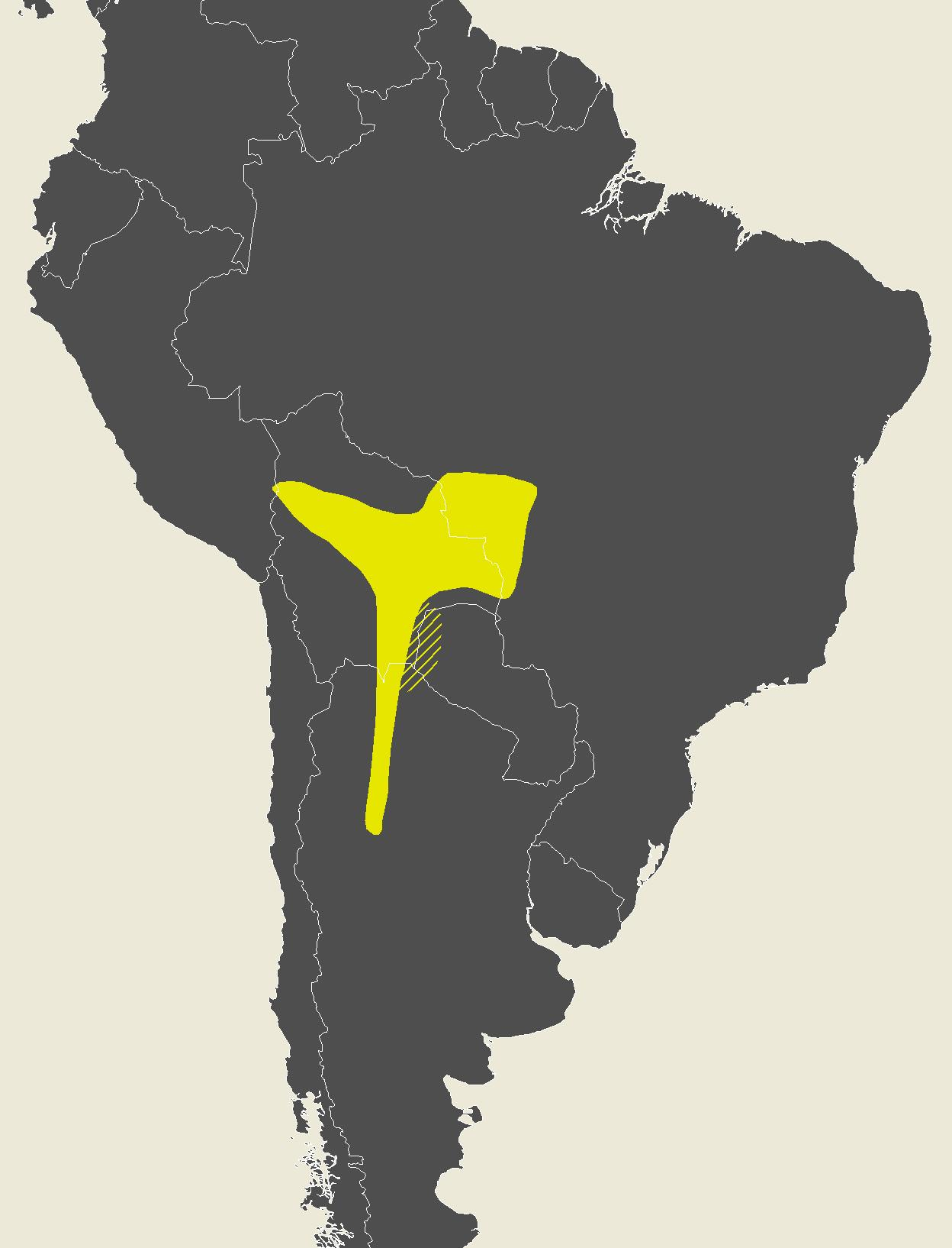 Range/Distribution of Pyrrhura molinae; Yellow shows known range, lined area is possible range